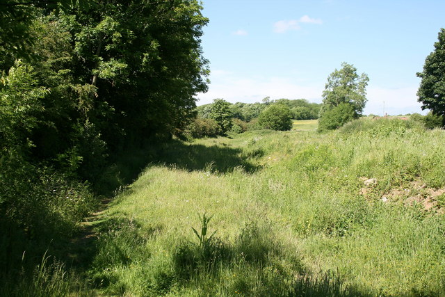 Dismantled Railway Looking north towards Ripon there is very little evidence now of the North Eastern Railway trackbed at Wormald Green. The station platforms still remain and the former station buildings are now private residences.